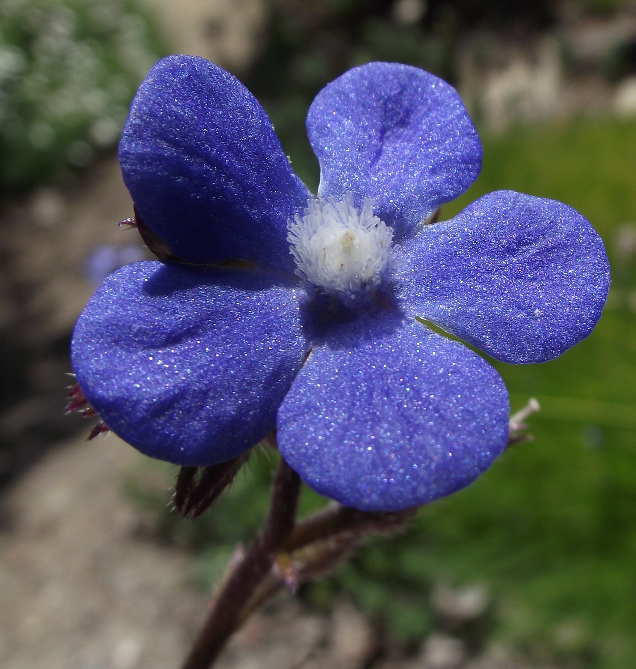 Anchusa azurea in the UC Botanical Garden, Berkeley, California, USA. Identified by sign.